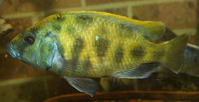 Nimbochromis venustus (male) Photo: Dr. David Midgley own photo